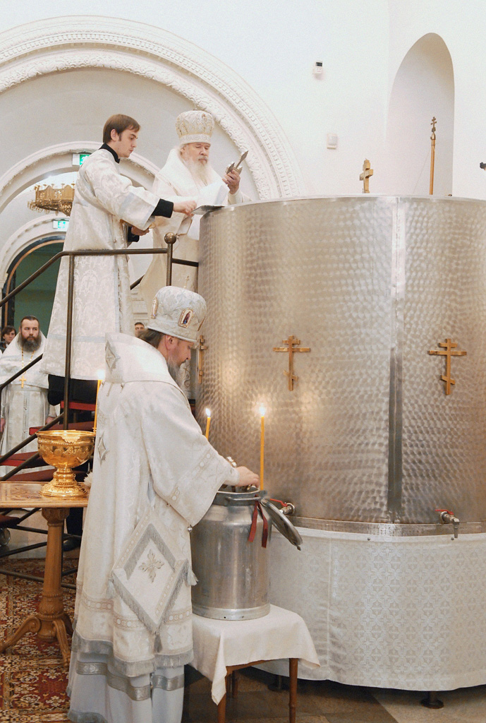 “Consecrating water at the Cathedral of Christ the Savior”. Patriarch Alexius of Moscow and All Russia performs divine liturgy and water-consecration ceremony at the Cathedral of Christ the Savior.